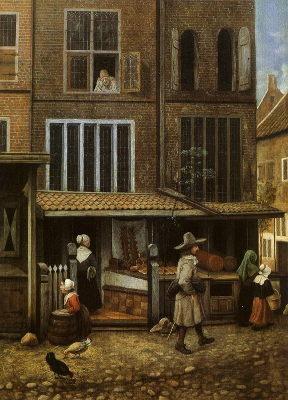 Street Scene with bakerylabel QS:Len,"Street Scene with bakery" label QS:Lpl,"Scena uliczna"